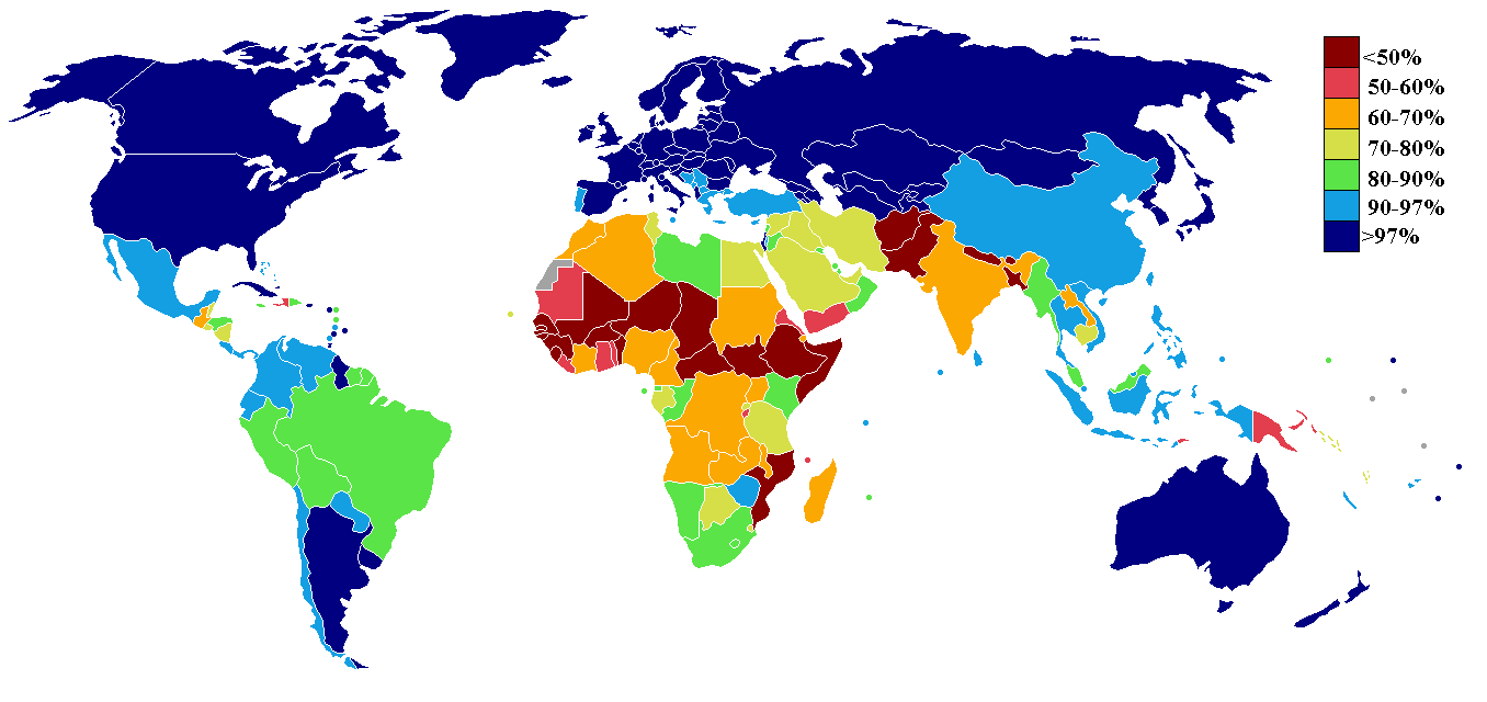 Literacy by country